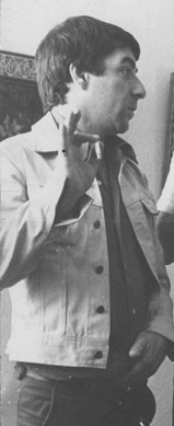 Carlos Moreno-actor argentino